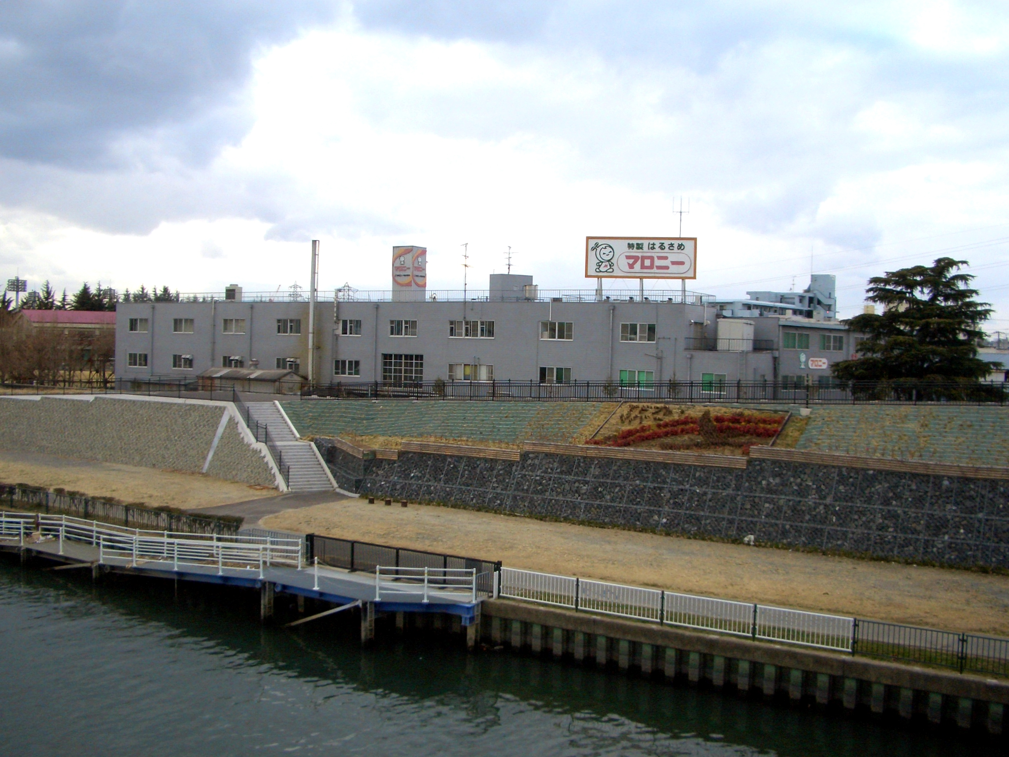 Malony head office and factory in Suita city,Osaka,Japan.